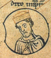 Pomoc Otto III, Holy Roman Emperor